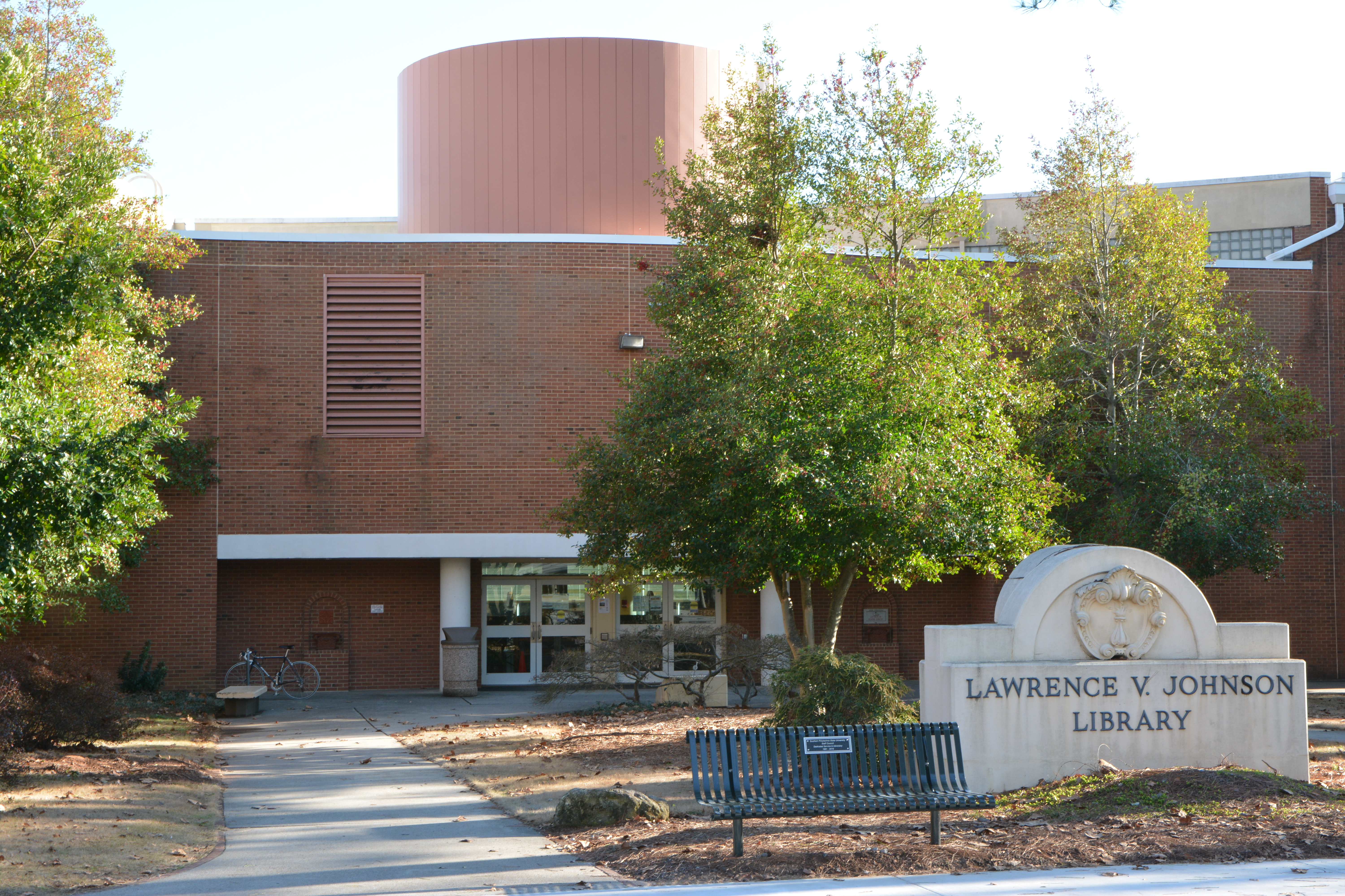 Kennesaw State University, Marietta Campus, library